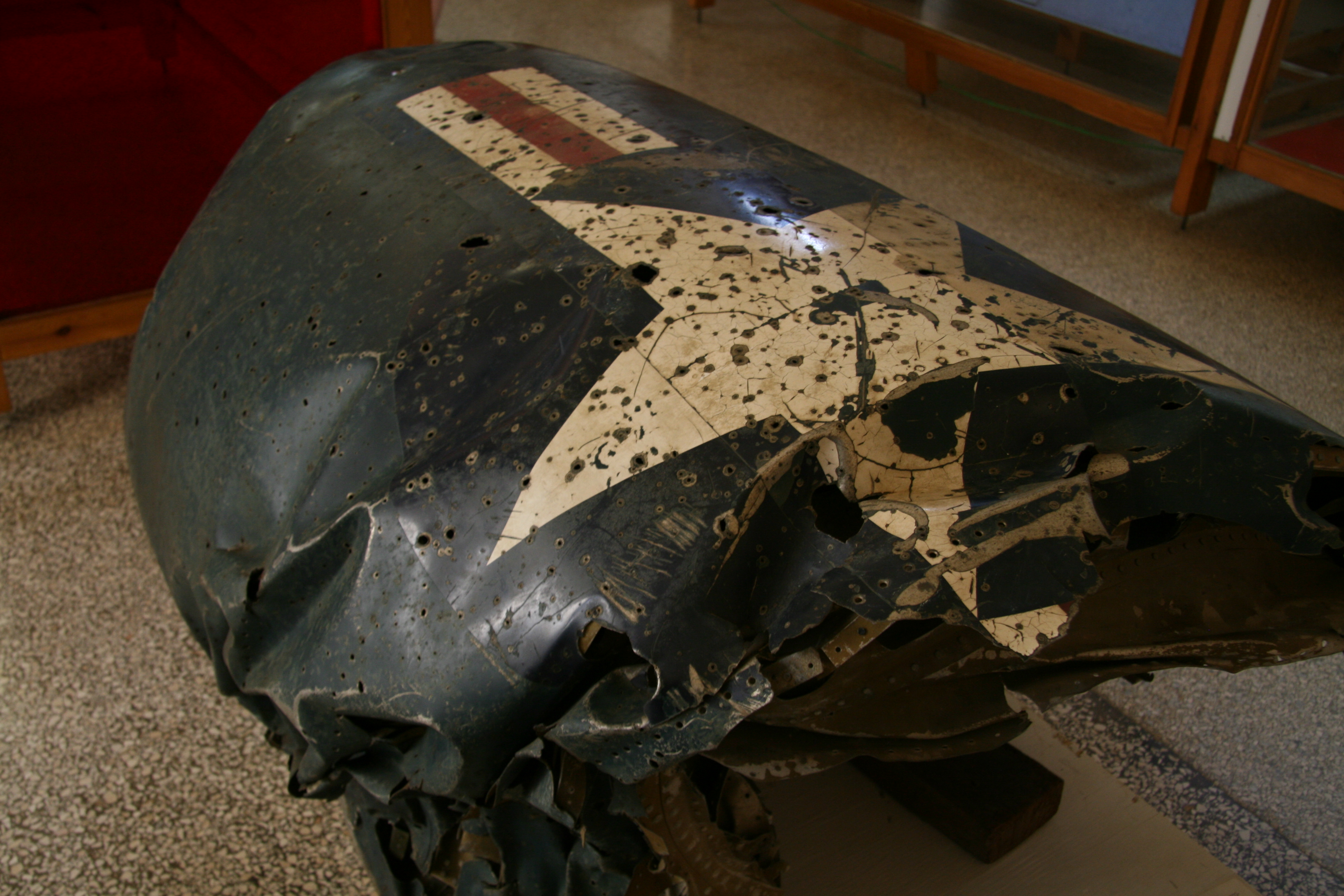 Part of the fuselage of the U2 spy plane shot down over Cuba during the missile crisis.